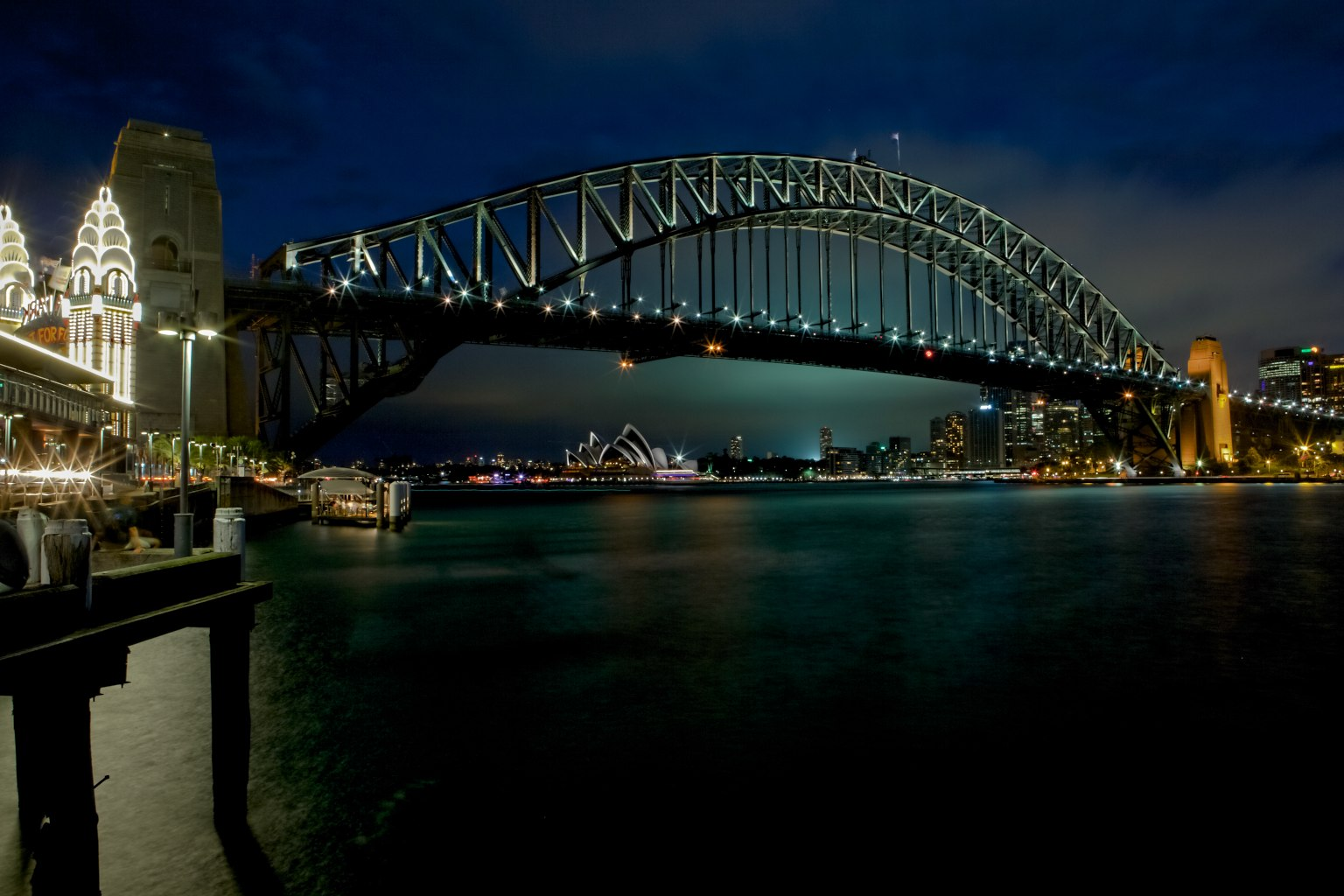 Sydney Harbour Bridge